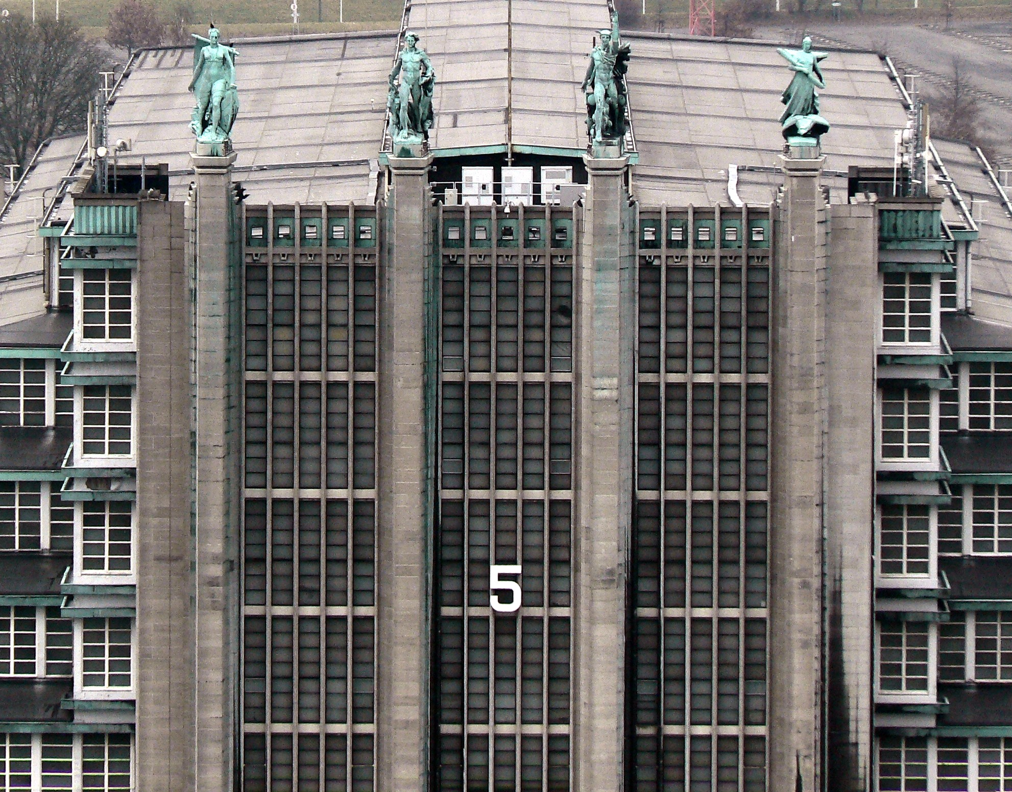 The "Grand Palais", one of the five great exposition halls of the Universal Exposition of Brussels in 1935. It was used again for the Expo '58 Worlds Fair but the bold Art Deco facade was hidden behind a large luminescent blue screen.